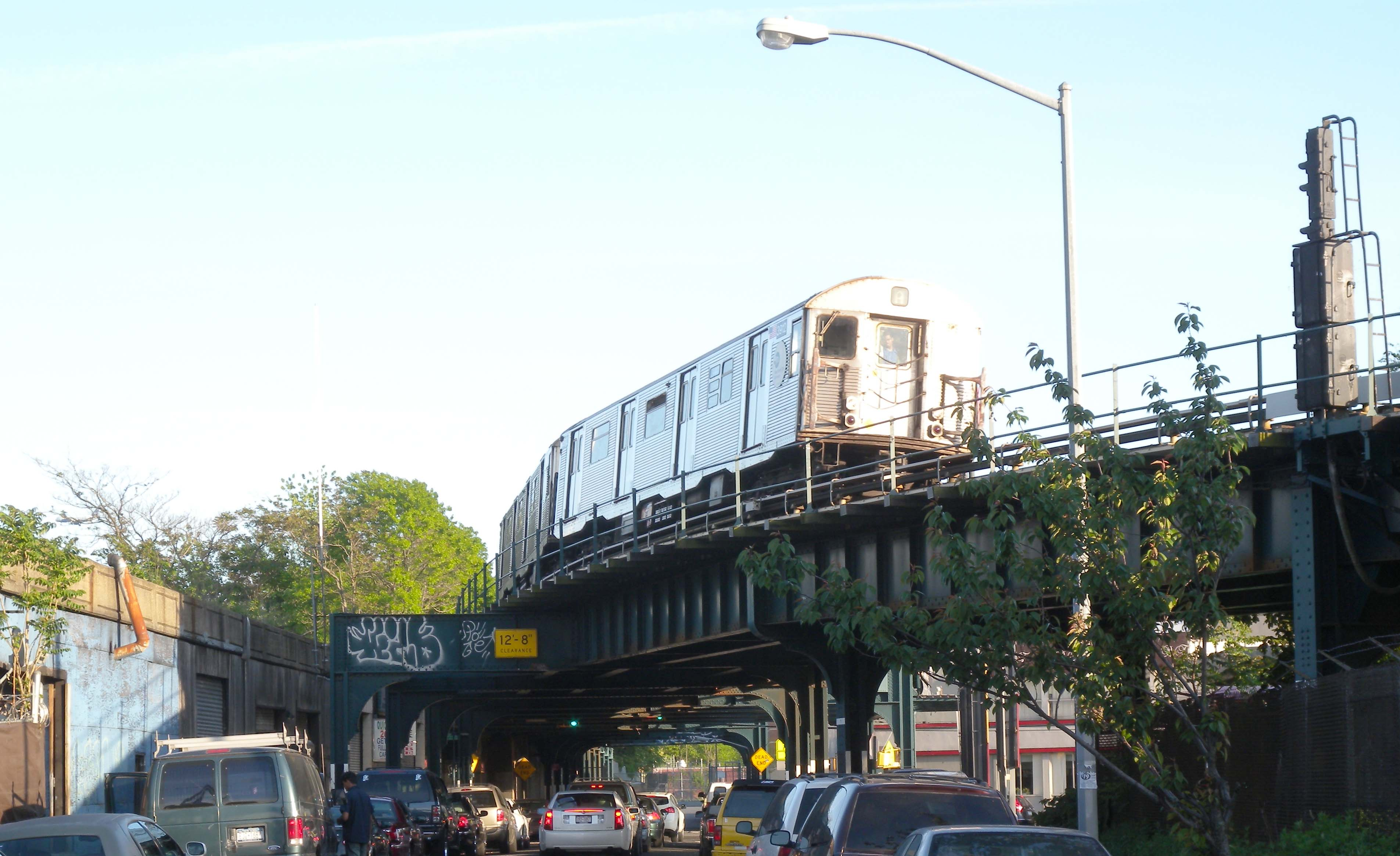 Looking southeast as approaching northbound A train turns west off the former Rockaway Beach Branch and onto the Liberty Avenue line on a sunny afternoon.